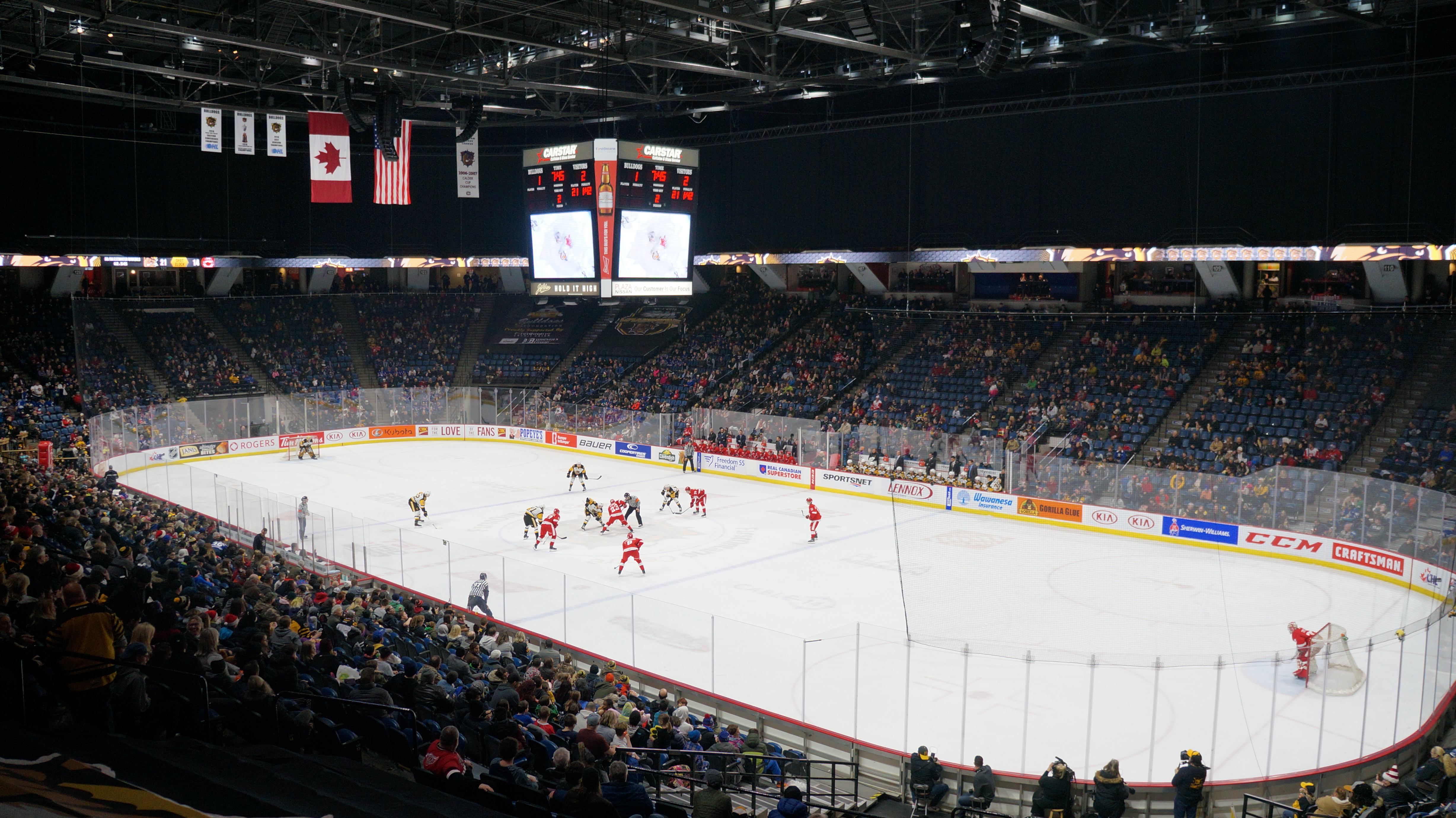 The Hamilton Bulldogs hosting the Sault Ste. Marie Greyhounds at the FirstOntario Centre in Hamilton, Ontario on December 15, 2018.